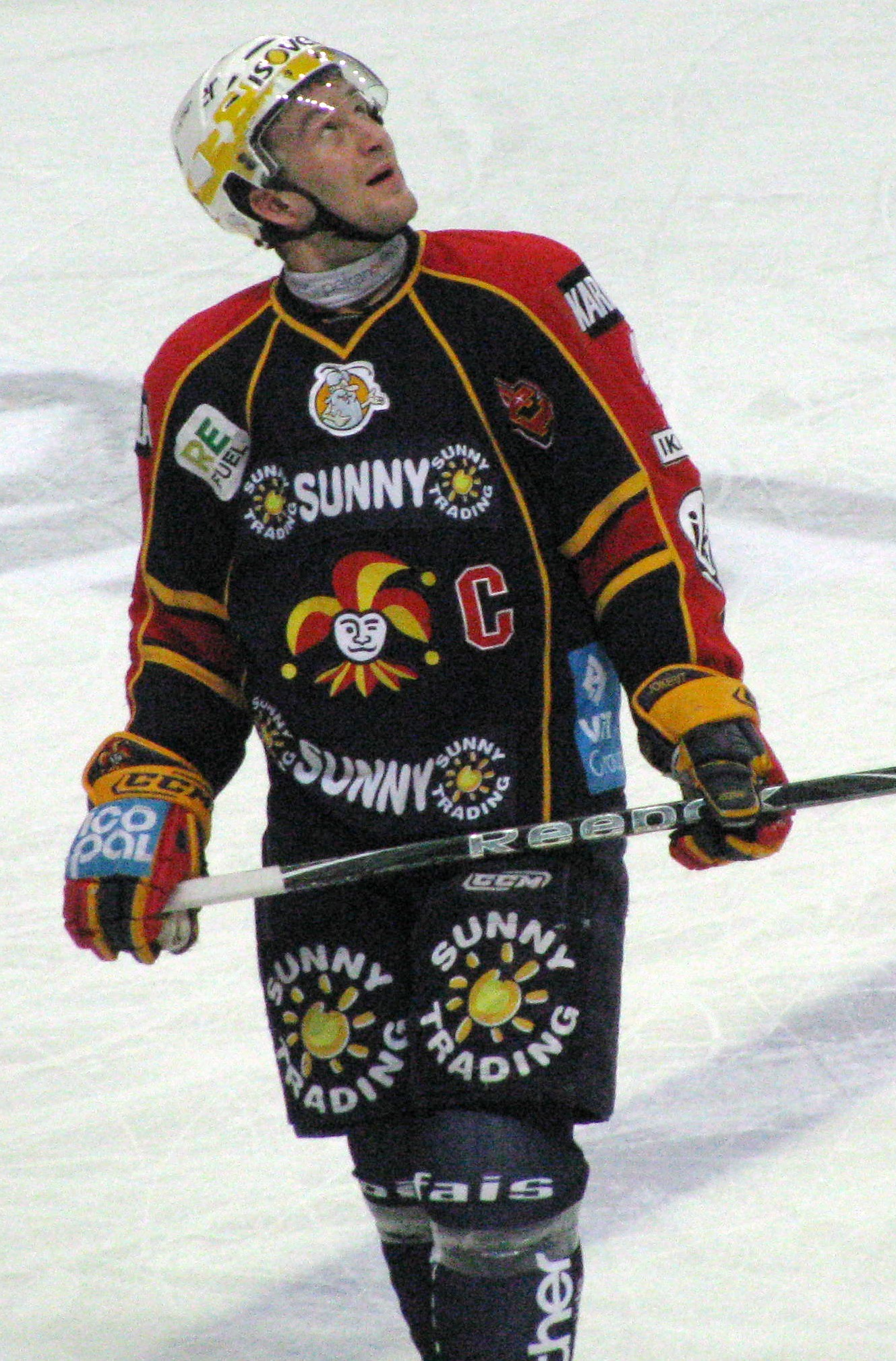 Antti-Jussi Niemi (Jokerit) in a match against Kärpät.